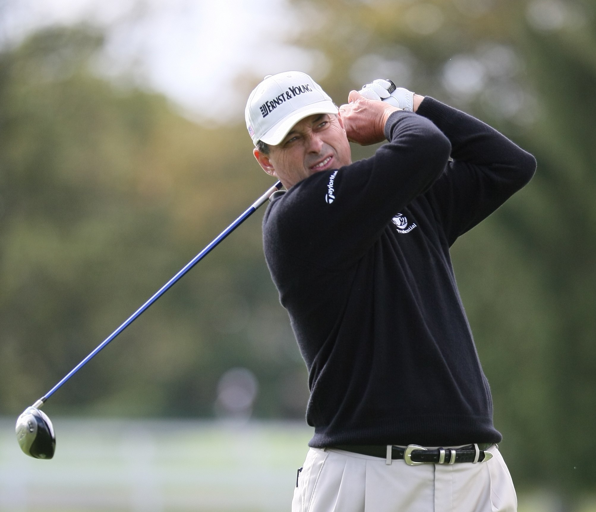 Constellation Energy Senior Players Championship Pro-Am held at Baltimore Country Club/Five Farms (East Course) on September 30, 2009 in Timonium, Maryland